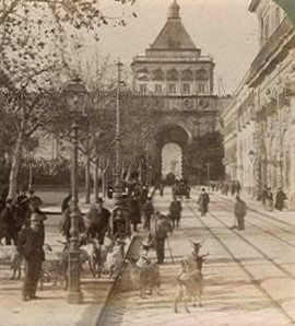 Winter afternoon on Vittorio Emanuele II (also known as Il Cassaro and Via Toledo), taken west through the Porta Nuova, Palermo, Sicily, Italy. Detail from the stereo card. © 1906, catalogue # 8555.